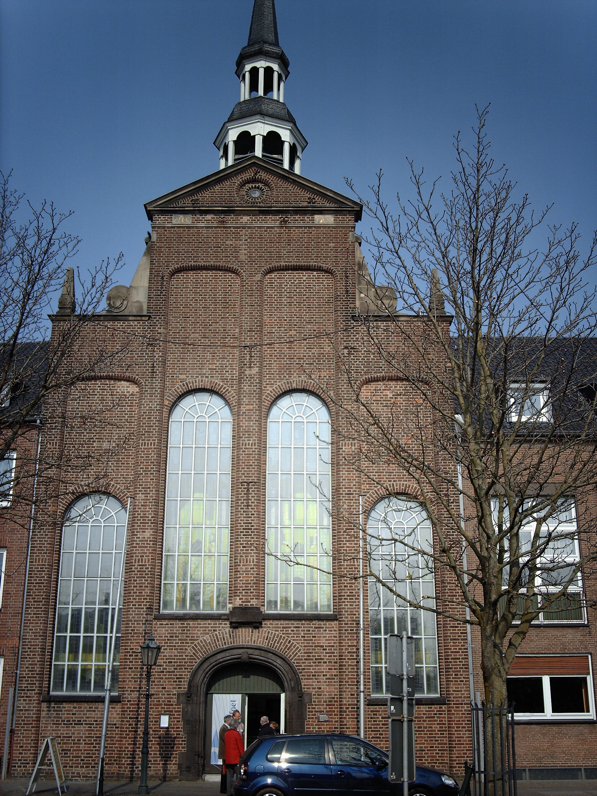 Protestant Church in Goch, Germany.